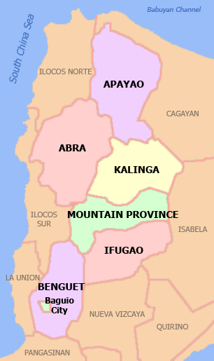 Political map of the Cordillera Administrative Region, Philippines. Showing Abra, Apayao, Benguet, Ifugao, Kalinga, Mountain Province and Baguio City. Used the map template Image:BlankMap-Philippines.png by User:TheCoffee.